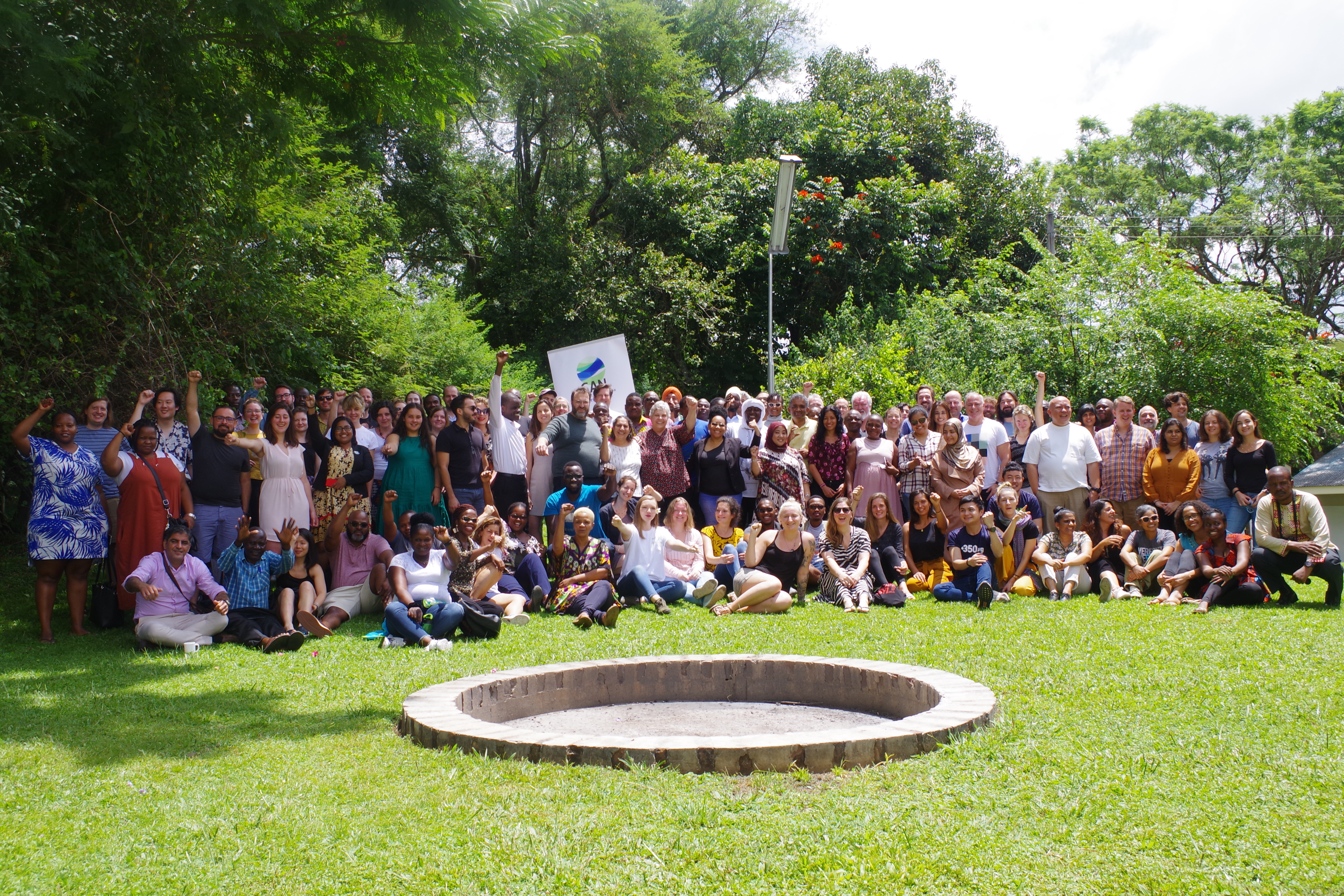 Members and staff of CAN International from all regions of its network at the CAN Annual Strategy Session in Arusha, Tanzania.